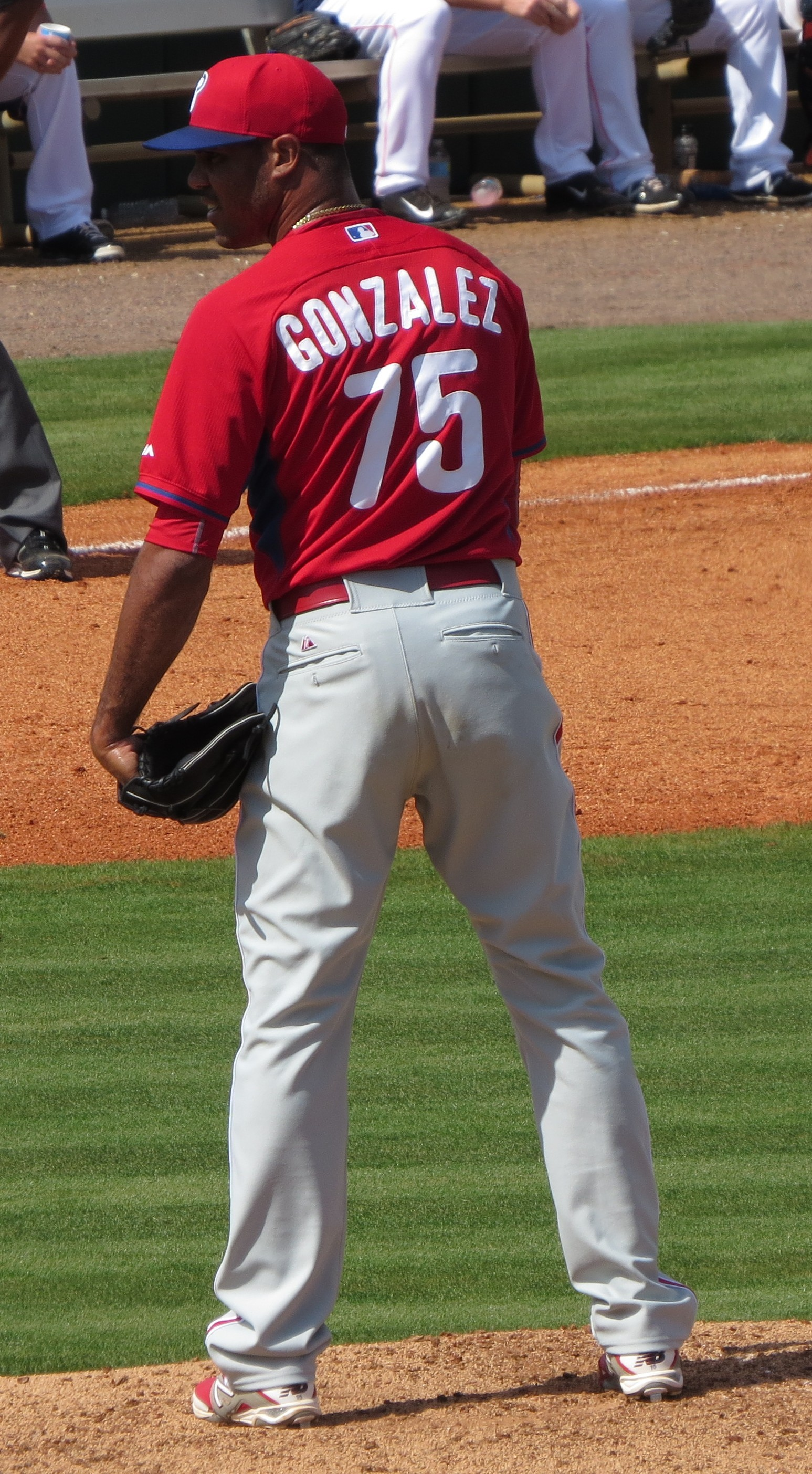 Miguel Alfredo González